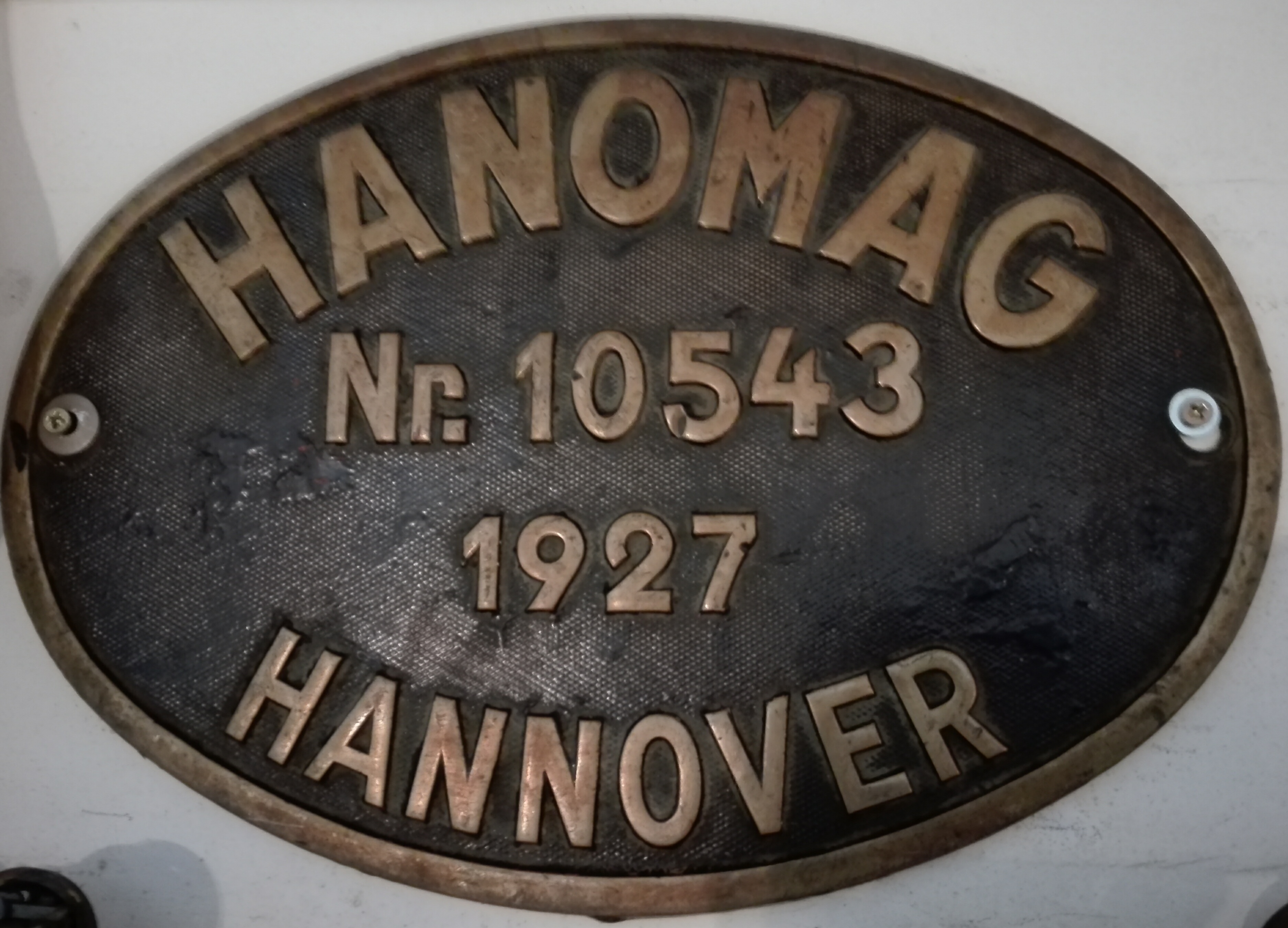 Gf 2401 builders plate